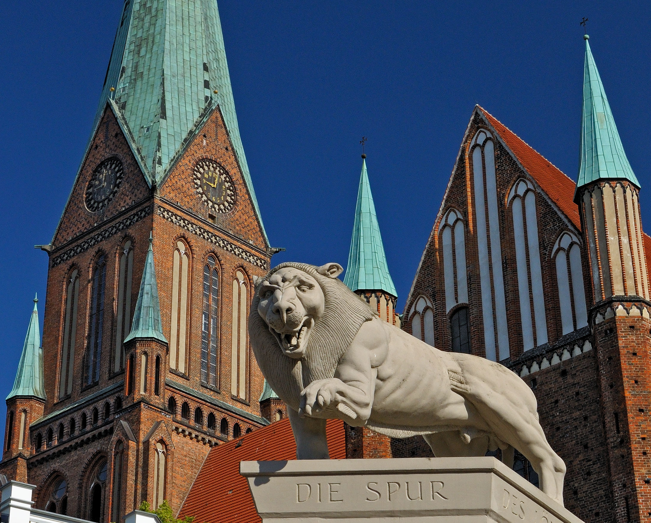 Henry the Lion (Heinrich der Löwe) Monument in front of the Dom. Schwerin, Germany.